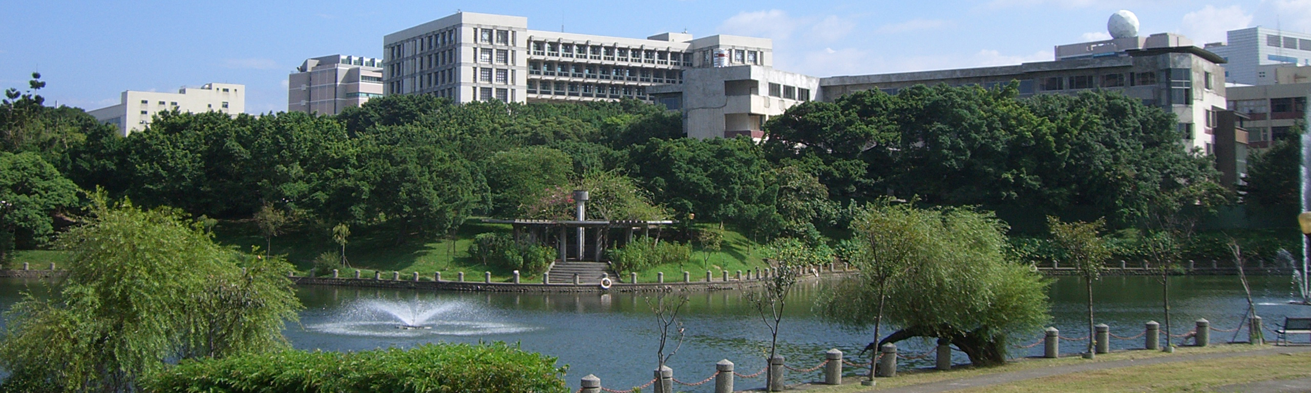 NCTU campus